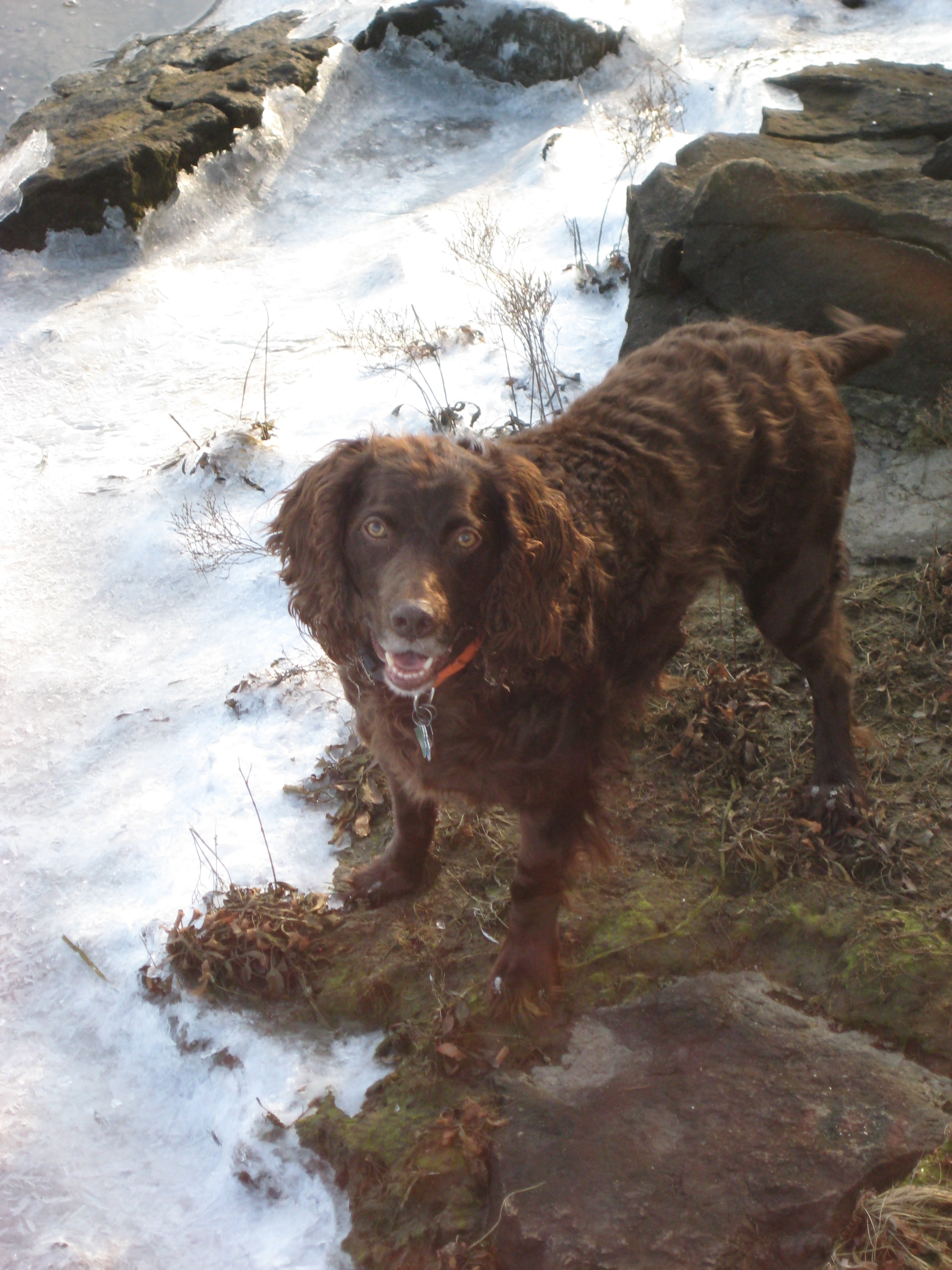 A brown Boykin Spaniel.